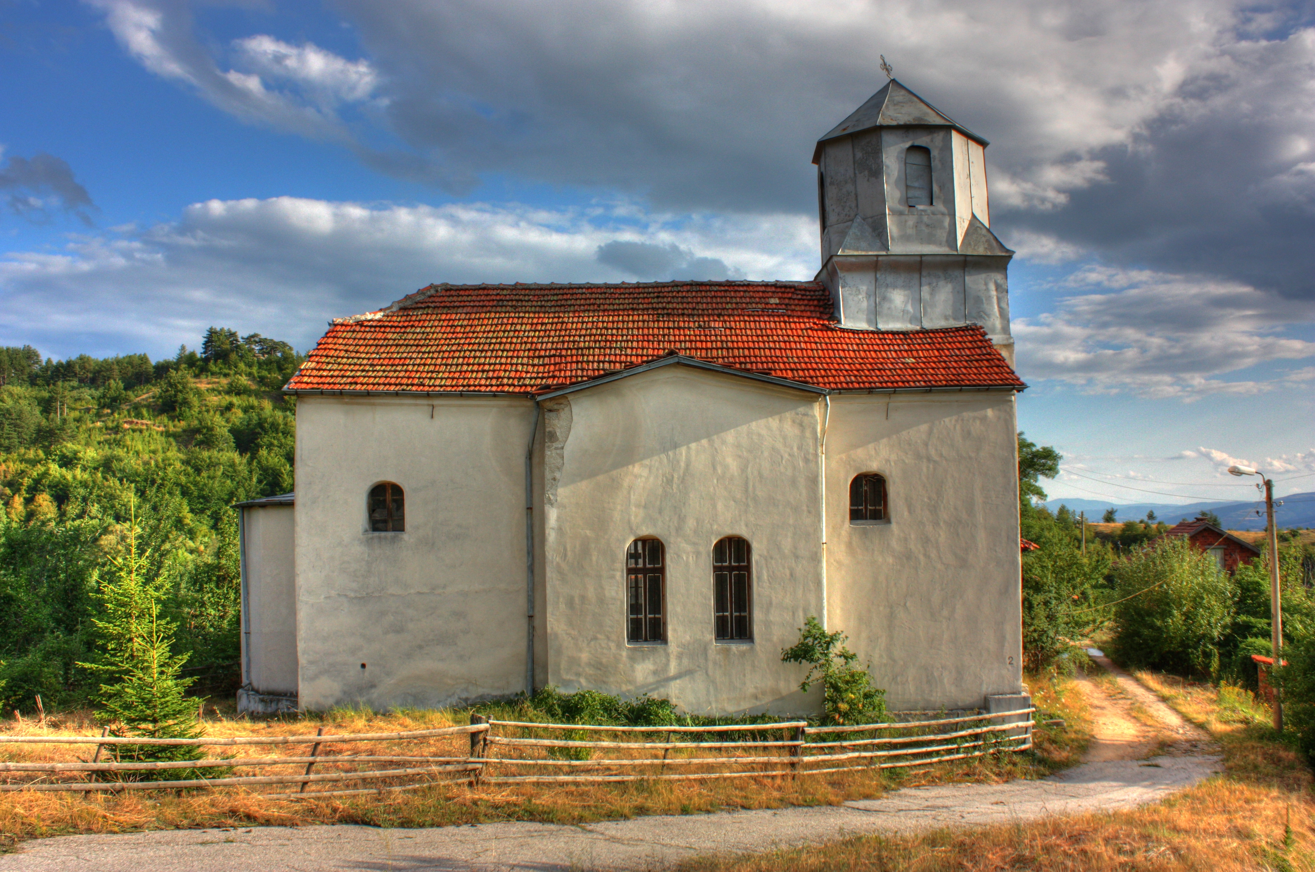 "St. Demetrius" church at the Bulgarian village Senokos